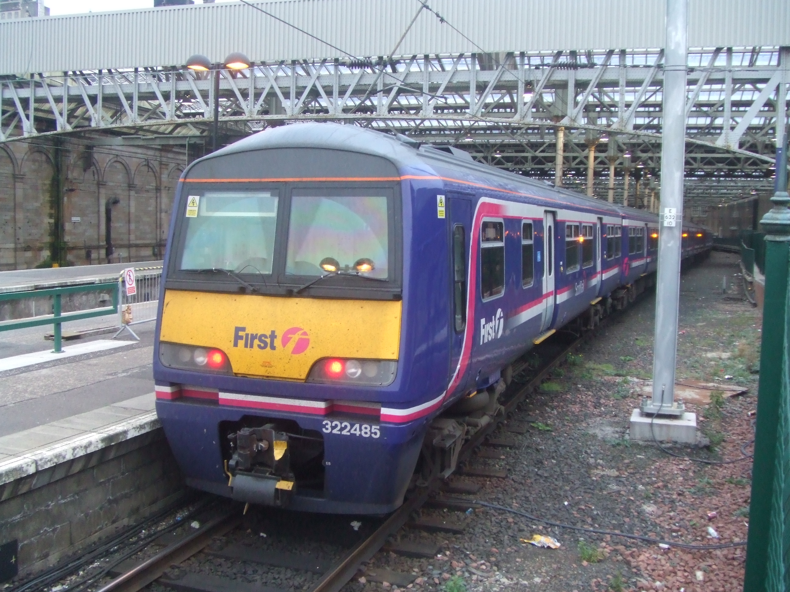 BREL (York) Class 322 Standard Mk.III outer-suburban (ex-Stansted Express) 25k v ac overhead 4-car emu No.322 485 of First Scot Rail awaiting departure for North Berwick, 10/07.